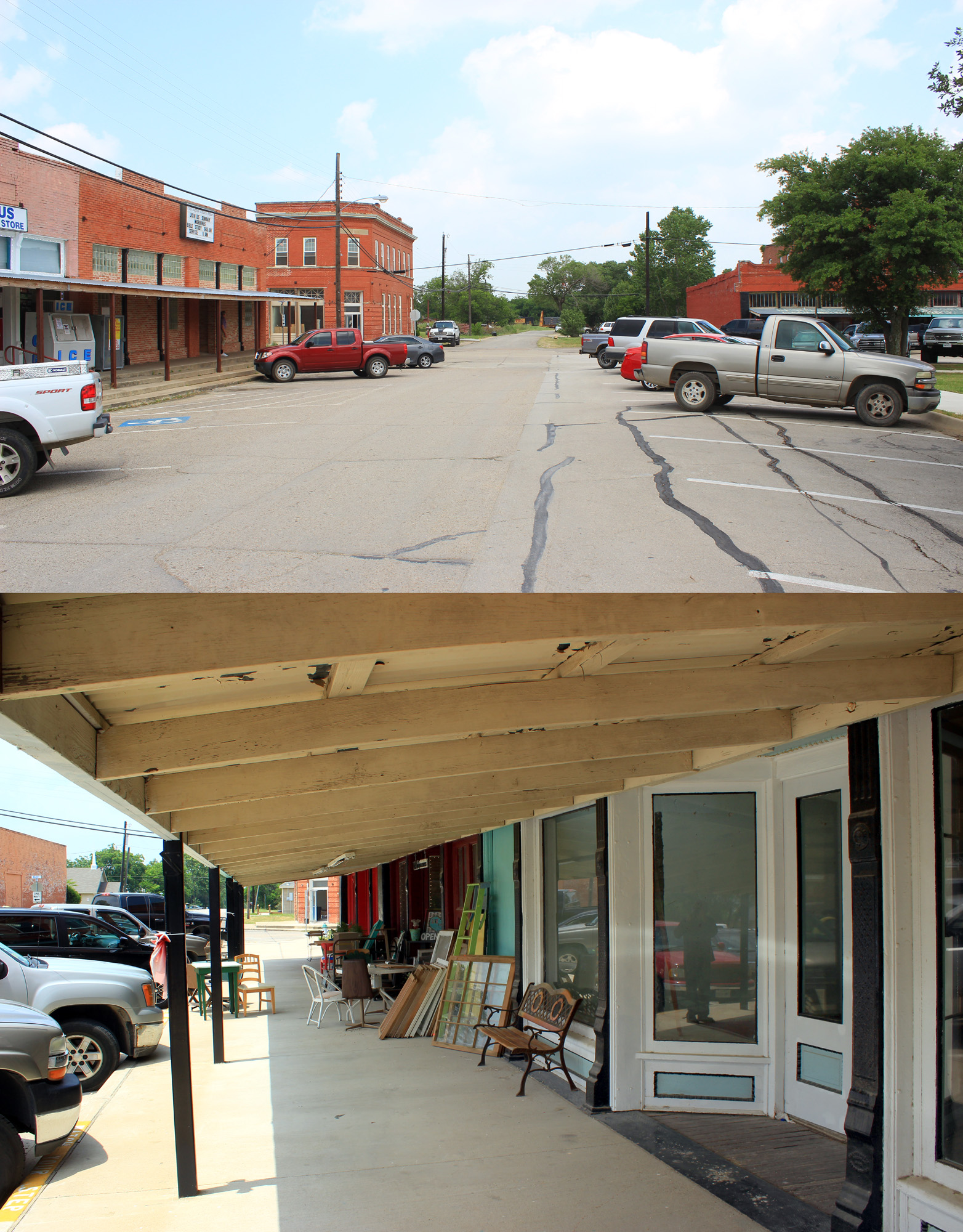 Venus was used as a filming location for the opening sequence of the movie Bonnie and Clyde, 1967 starring Warren Beatty and Faye Dunaway